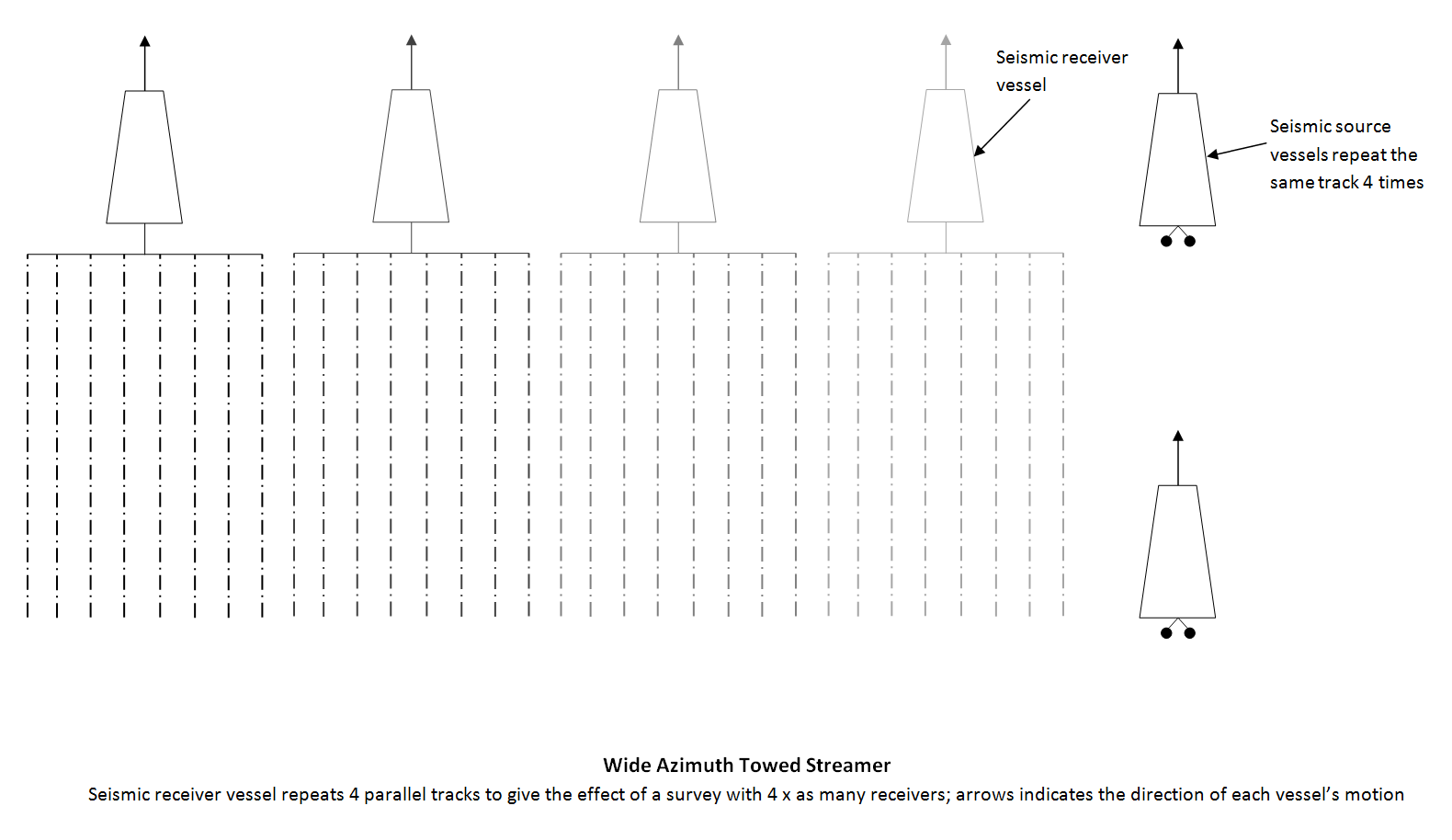 This diagram shows the layout of a WATS survey, in plan view.